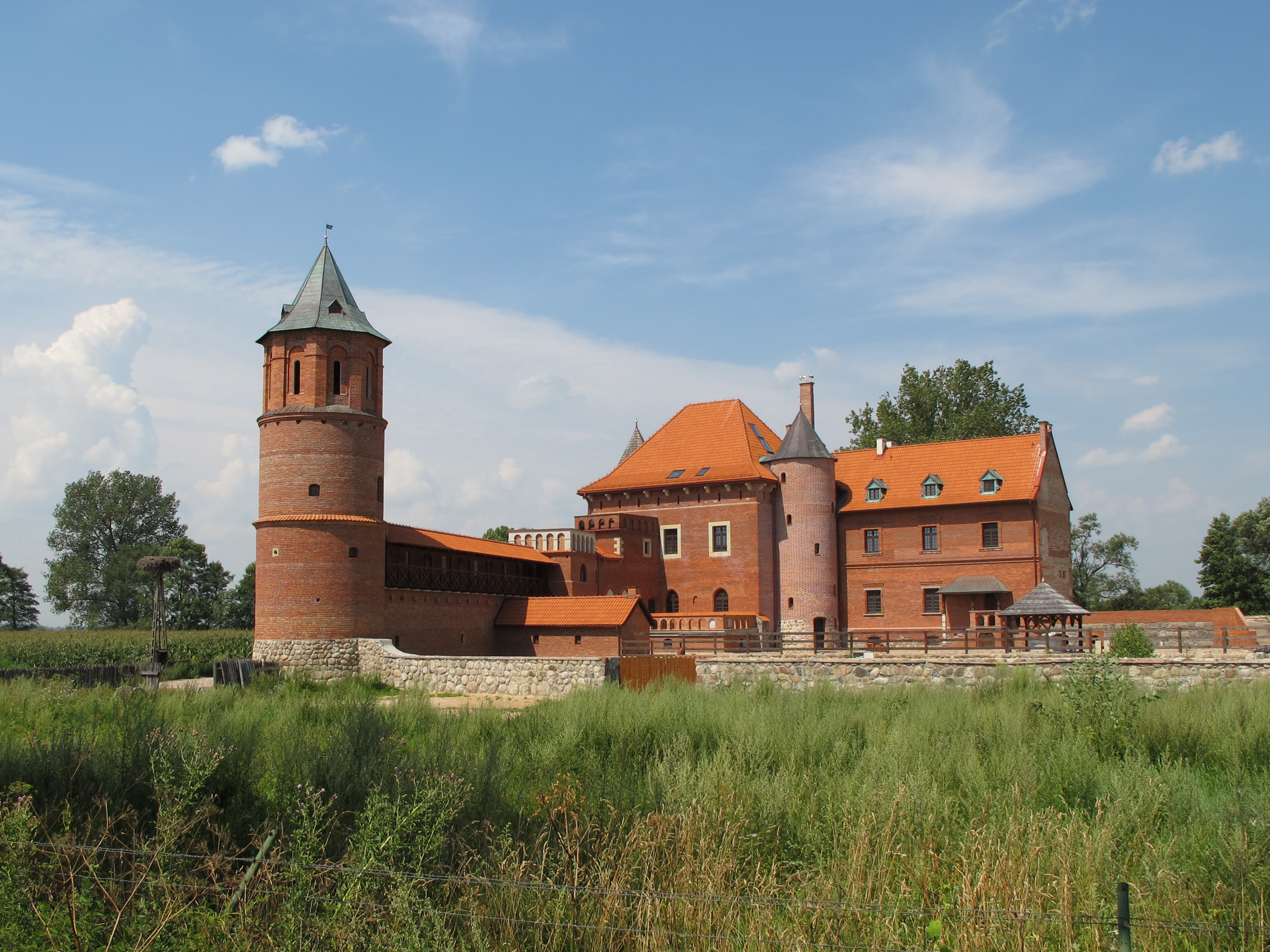 Castle built in 1433 by trakai and vilnus voivode Jan Gasztołd on place of old wooden fortress from 1st quarter of XIV century. Expanded in 1550-1582 by king Sigismund Augustus. Expansion was directed by military engineer and royal builder, Hiob Bretfus. After expansion one of the most powerful forts on lowland plains. Destroyed 1771/1914. Partially rebuilt in 2005.